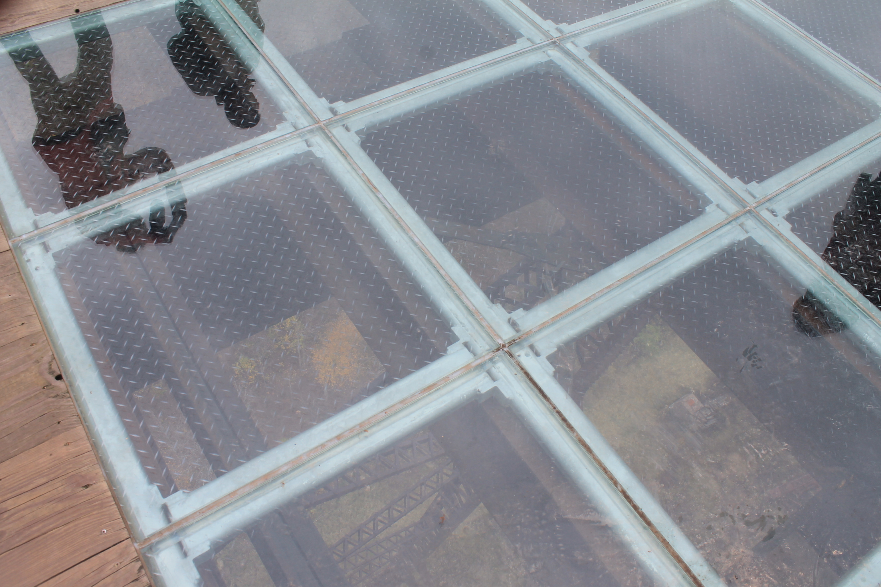 Detail of glass floor of the observation deck, on the remaining section of the Kinzua Bridge — located in Kinzua Bridge, Pennsylvania. Credits Copyright (c)2013 Andy Arthur. Taken on 19 October, 2013. Creative Commons License.